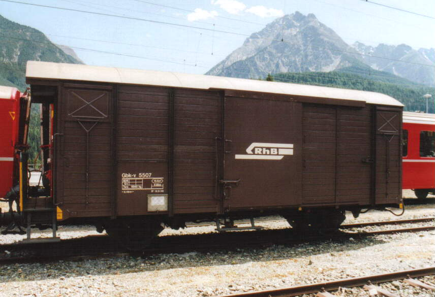 Covered van Gbk-v 5507 of the Rhaetian Railway (RhB) on 21 June 2003 at Scuol-Tarasp. In the background is the 2,920 m high Piz Champatsch, an eastern mountain in the Silvretta range.